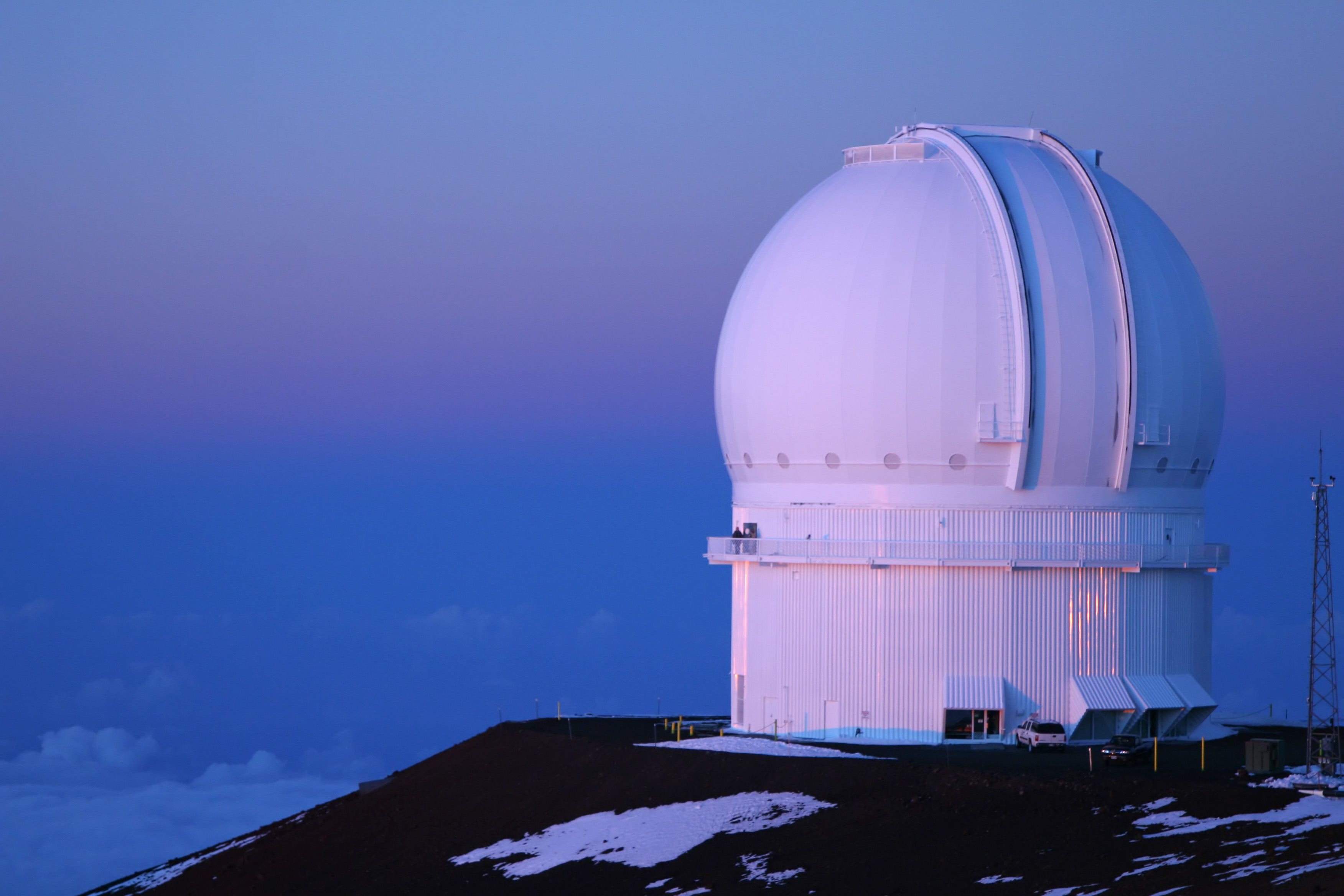 The Canada-France-Hawaii Telescope, part of the Mauna Kea Observatory in Hawai'i.